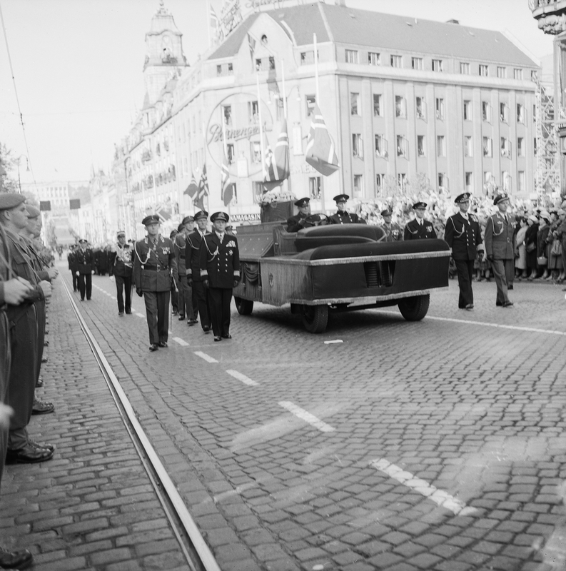 Funeral of Haakon VII of Norway